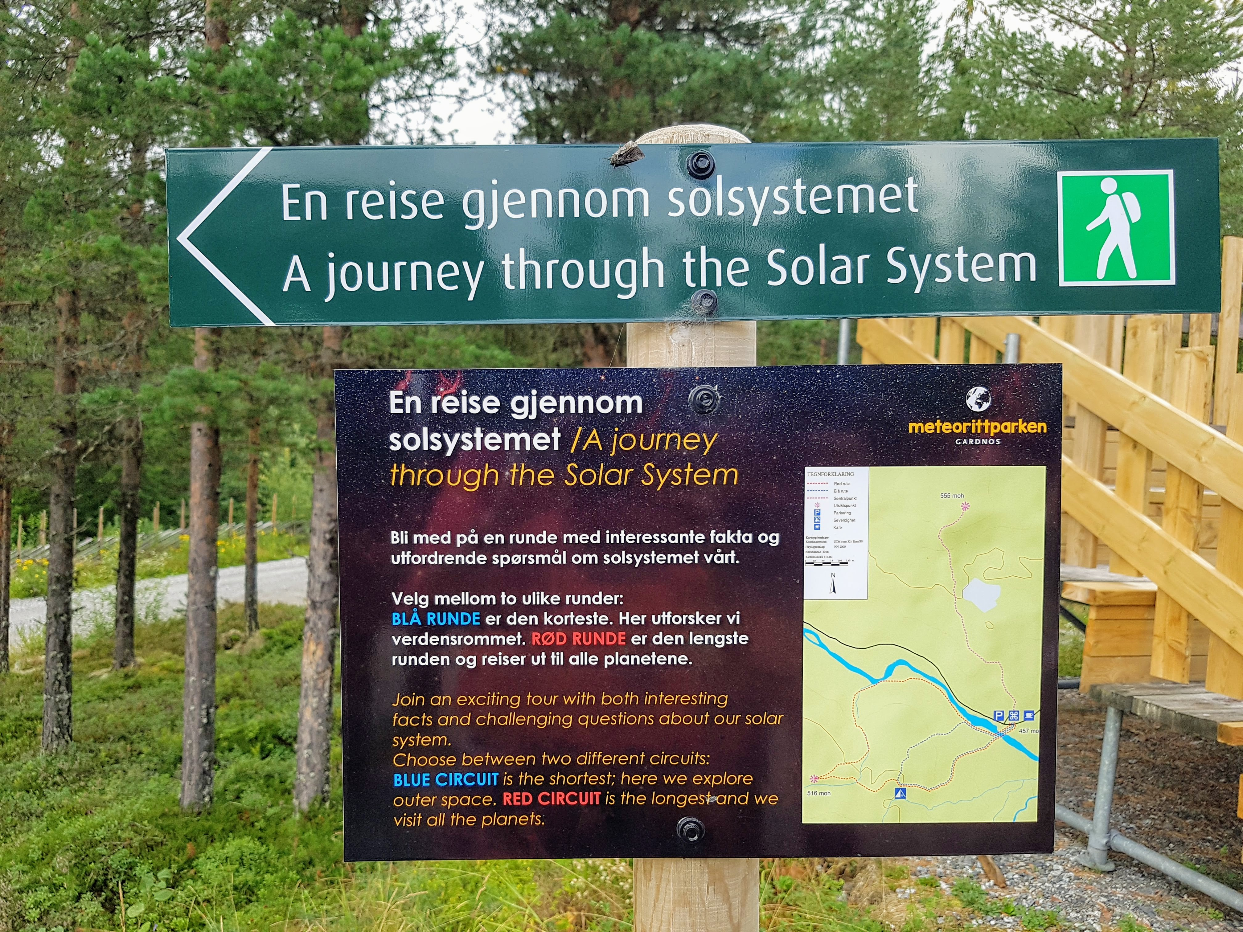 A singboard at Gardnos meteorite park.